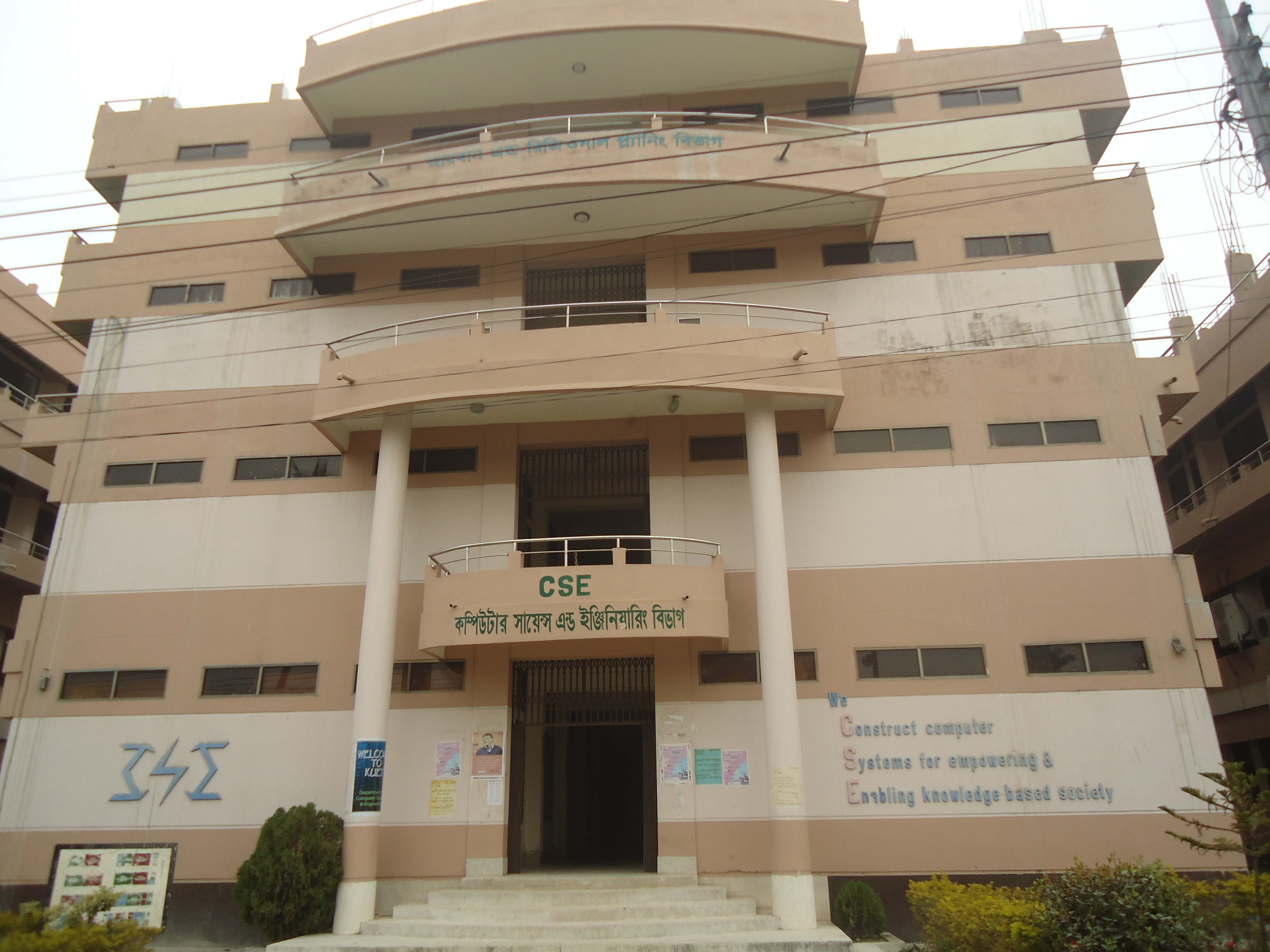 Computer science and technology department, KUET, Khulna